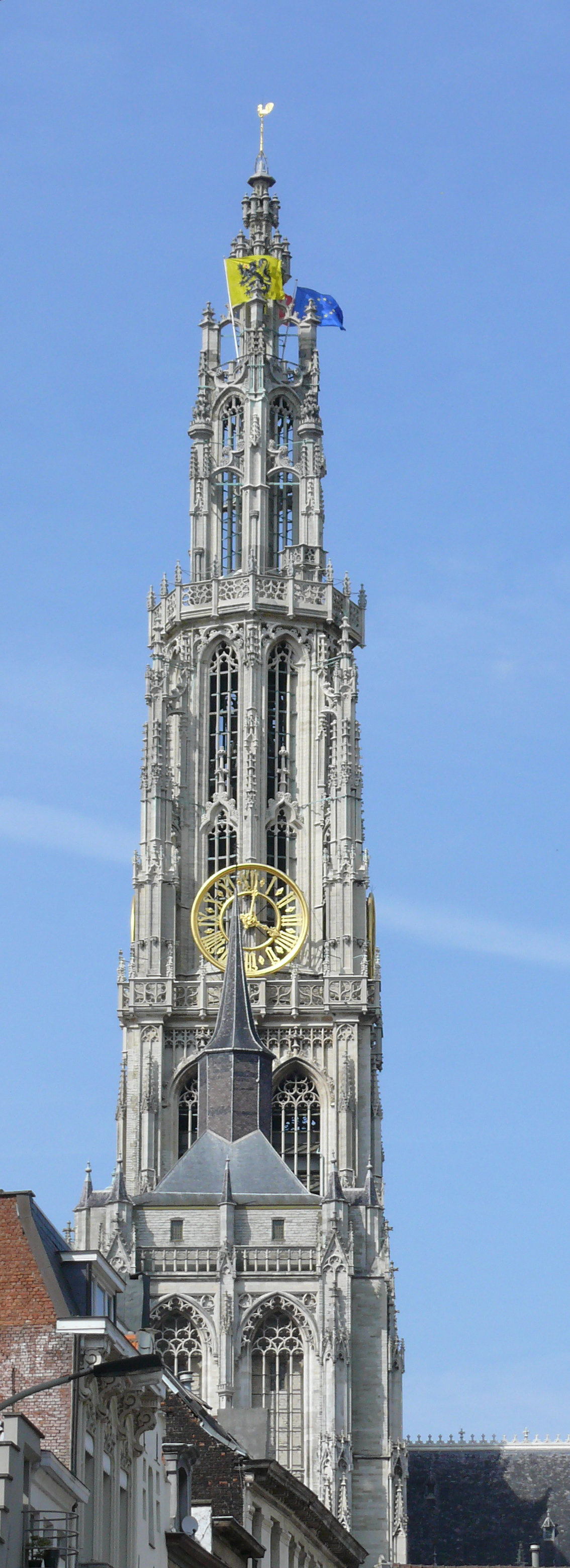 Our Lady's Cathedral, Antwerp. The Cathedral of Our Lady (Dutch: Onze-Lieve-Vrouwekathedraal ten Hemel Opgenomen) is a Roman Catholic parish church in Antwerp, Belgium. The today's see of the Diocese of Antwerp was started in 1352 and, although the first stage of construction was ended in 1521, has never been 'completed'. In Gothic style, its architects were Jan and Pieter Appelmans. It contains a number of significant works by the Baroque painter Peter Paul Rubens, as well as paintings by artists such as Otto van Veen, Jacob de Backer and Marten de Vos. The flag waiving atop is the Flemish Lion, official flag of the Flemish community of Belgium.